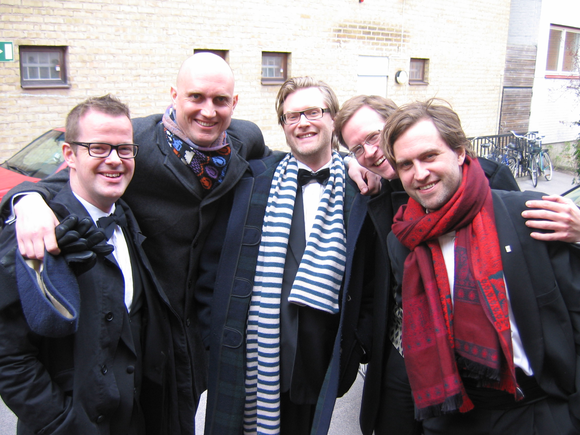 A group of people strongly connected with the "Karnevalsfilm", i.e. the tradition of making movies as part of the students' carnival held every fourth year in Lund ("Lundakarnevalen"). From left to right: Christian Godden (head of the carnival of 1998, actor in the movies of 1998 and 2006), Fredrik Fritzson (co-writer of the movie of 1998, actor in the movies of 1998, 2002 and 2010), Anders Andersson (komiker) (co-writer and director of the movie of 2002), Henrik Widegren (co-writer of and actor in the movie of 2002) and Magnus Erlandsson (co-writer and director of the movie of 1998). Photo taken at the premiere of the "karnevalsfilm" of 2010, Dessa Lund.